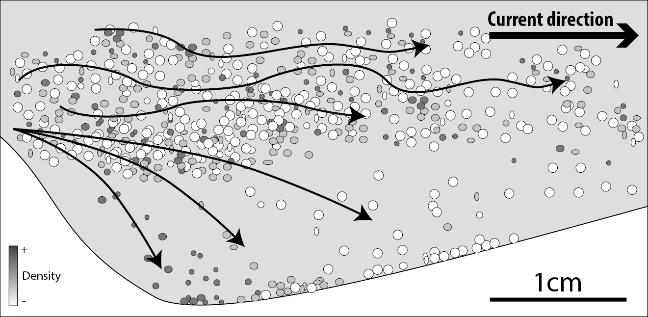 Current density sorting, and placer deposits formation